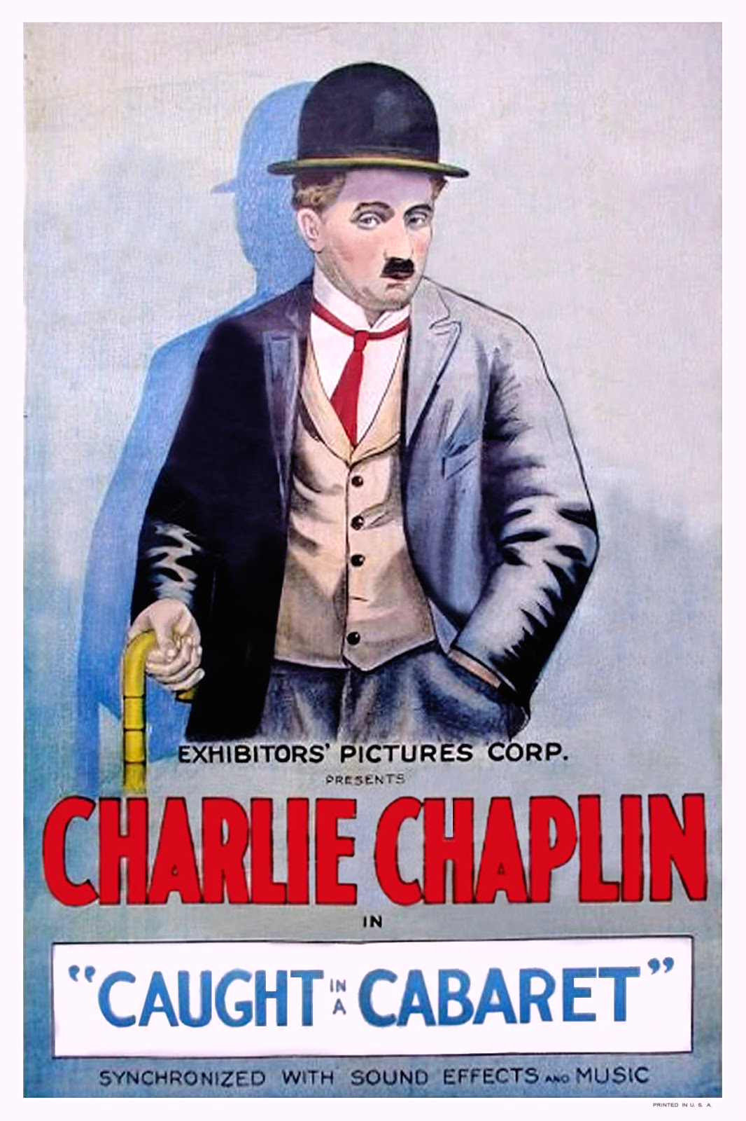 Poster for the 1914 film Caught in a Cabaret.